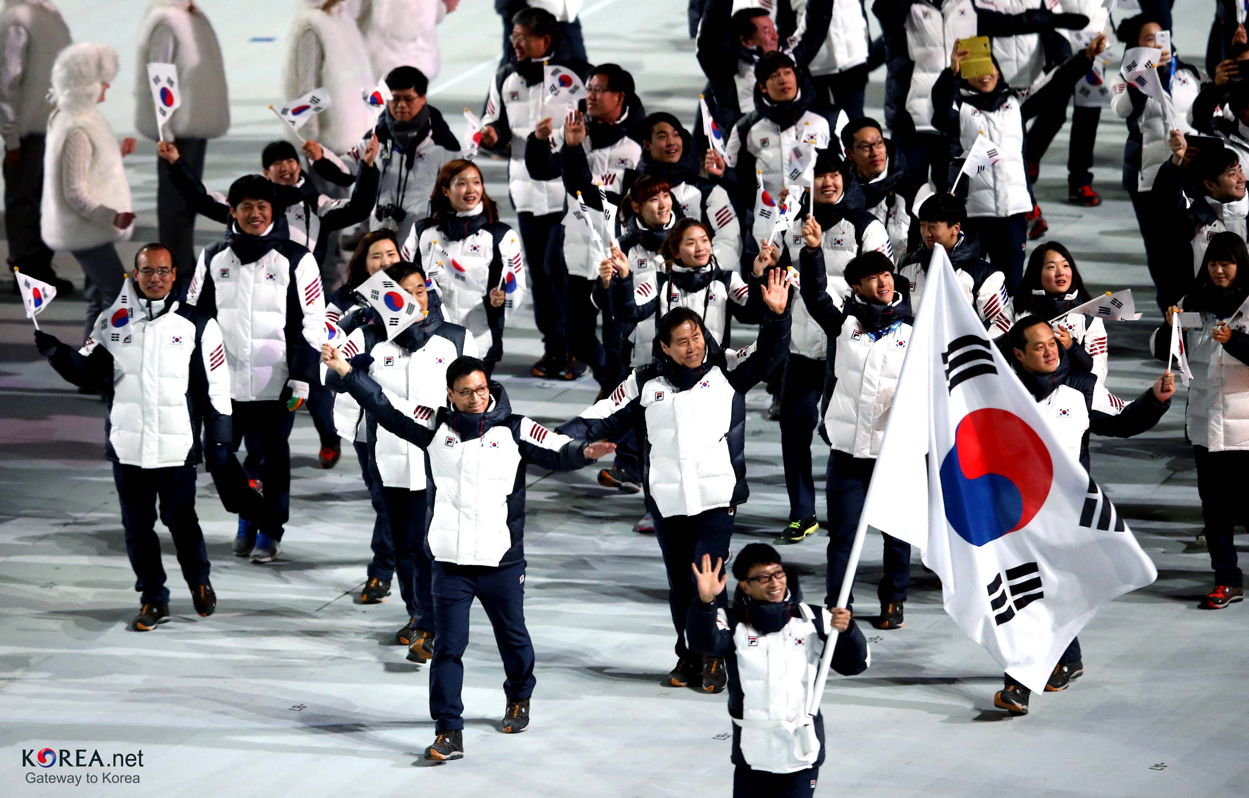 The South Korean contingent in the opening ceremony at the Sochi 2014 Winter Olympic Games